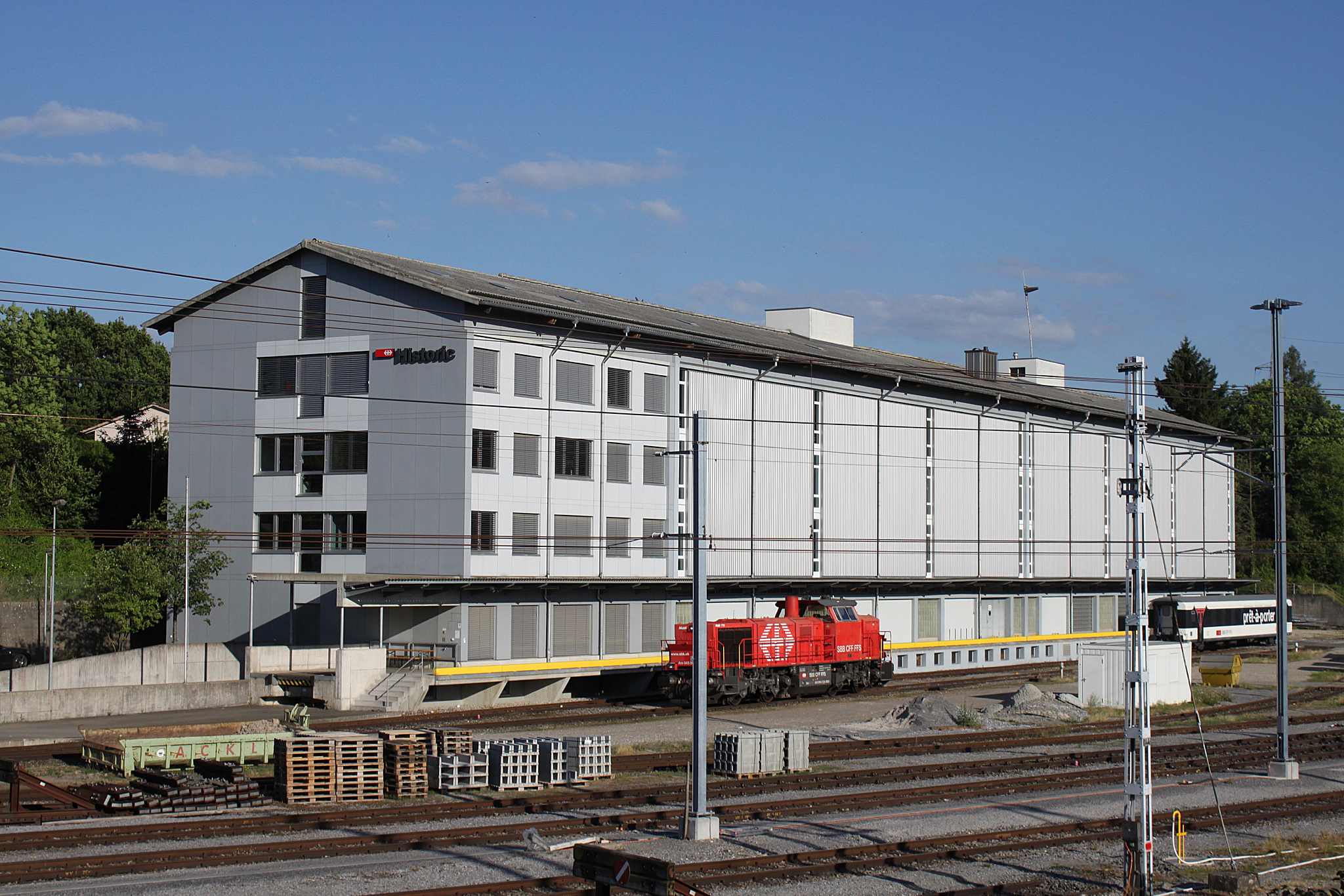 SBB CFF FFS Historic headquarters in Windisch.